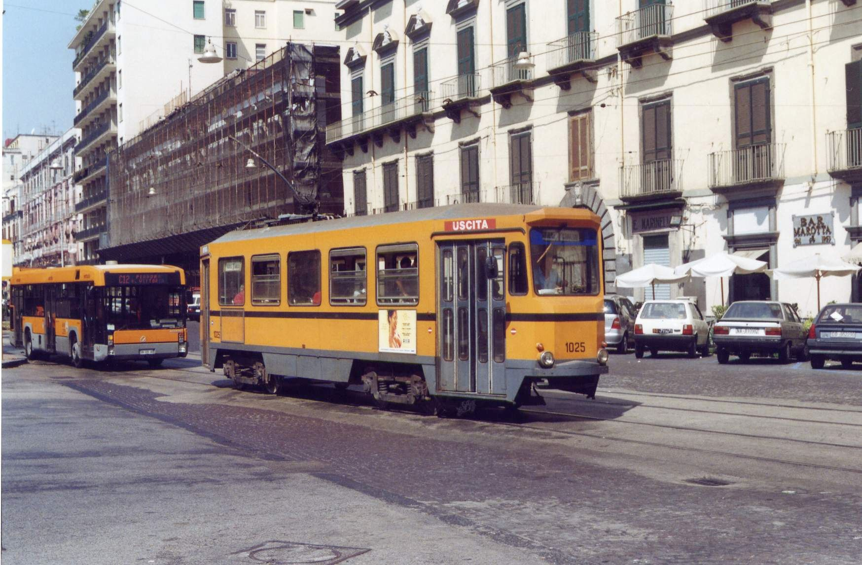 ANM (Naples, Italy) tram 1025, eastbound on Riviera di Chiaia at Piazza Vittoria.